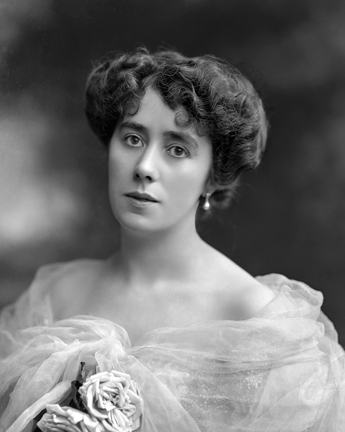 Mrs Alfred Charles William Harmsworth Mrs Alfred Charles William Harmsworth, later Viscountess Northcliffe, then Lady Mary Hudson, née Mary Elizabeth Milner (d 1963). Photographed 9 May 1902.